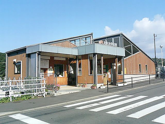 Oita Daigaku-mae Station, Hohi Main Line, Kyushu Railway Company.